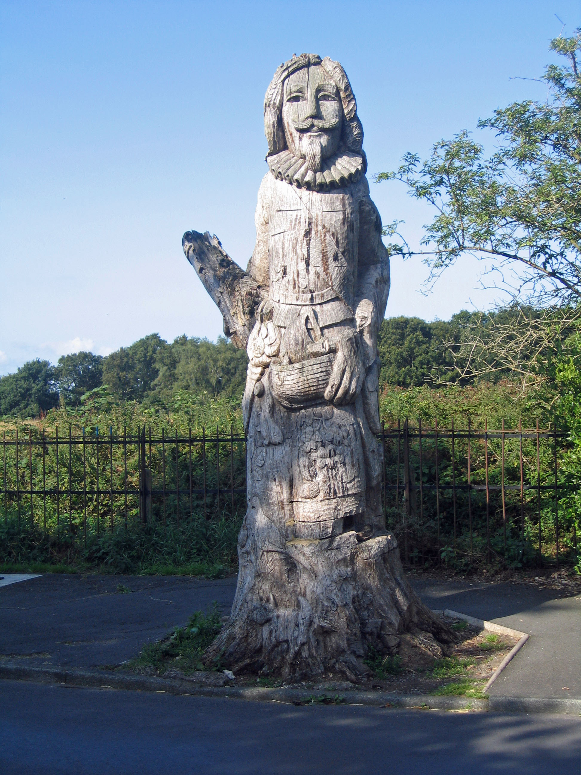 Photograph of a wooden carving of the "Childe of Hale" in Hale, Halton, Cheshire, England